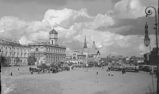 Kalanchevskaya (Komsomolskaya) Square and Nikolaevsky (Leningradsky) аnd Yaroslavsky Rail Terminals, Moscow, 1920s